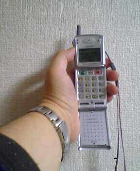 NTT Docomo PHS Paldio 611S in my hand, in my room